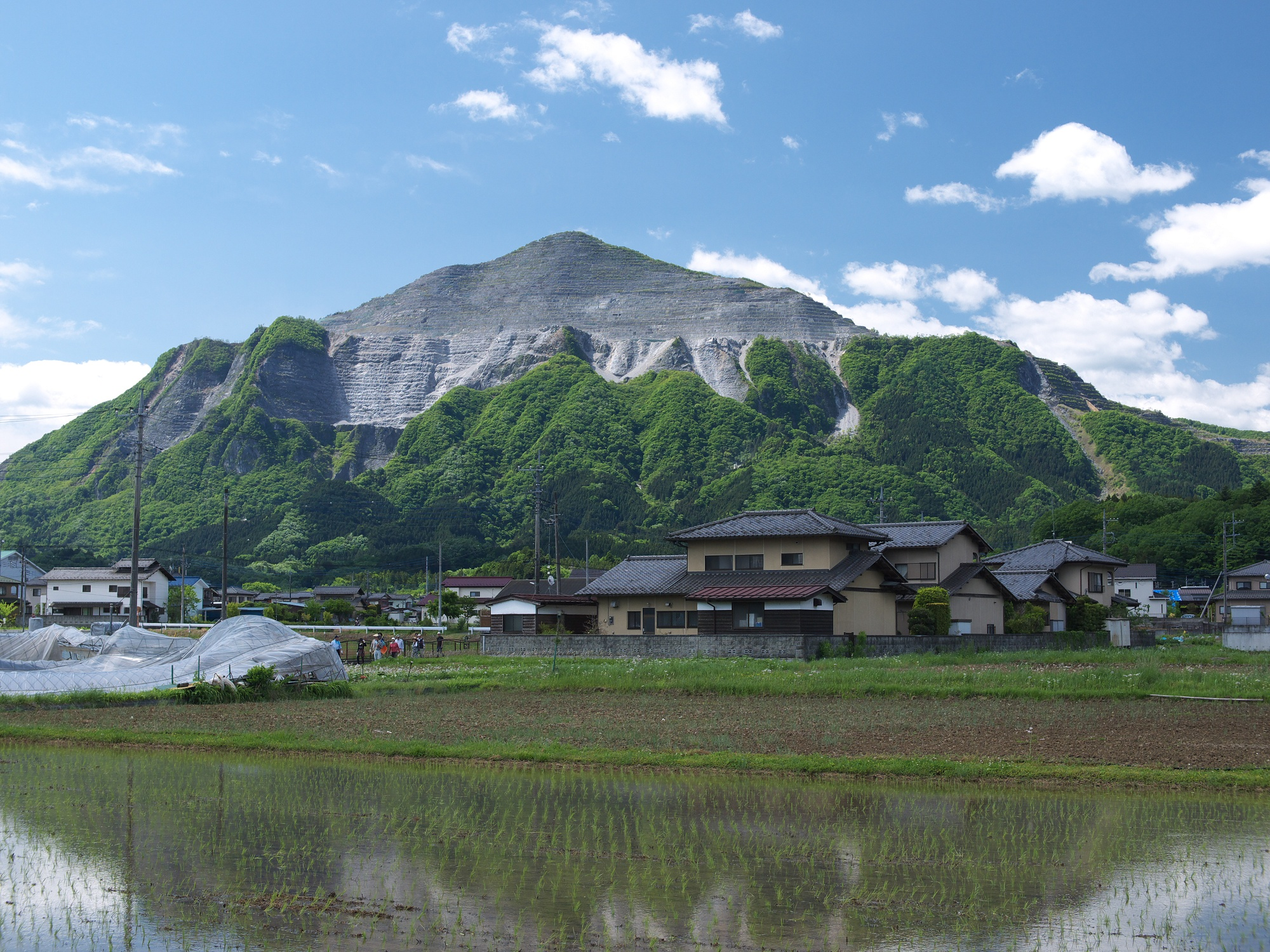 Mount Buko as seen from the north in Chichibu, Saitama Prefecture, Japan.